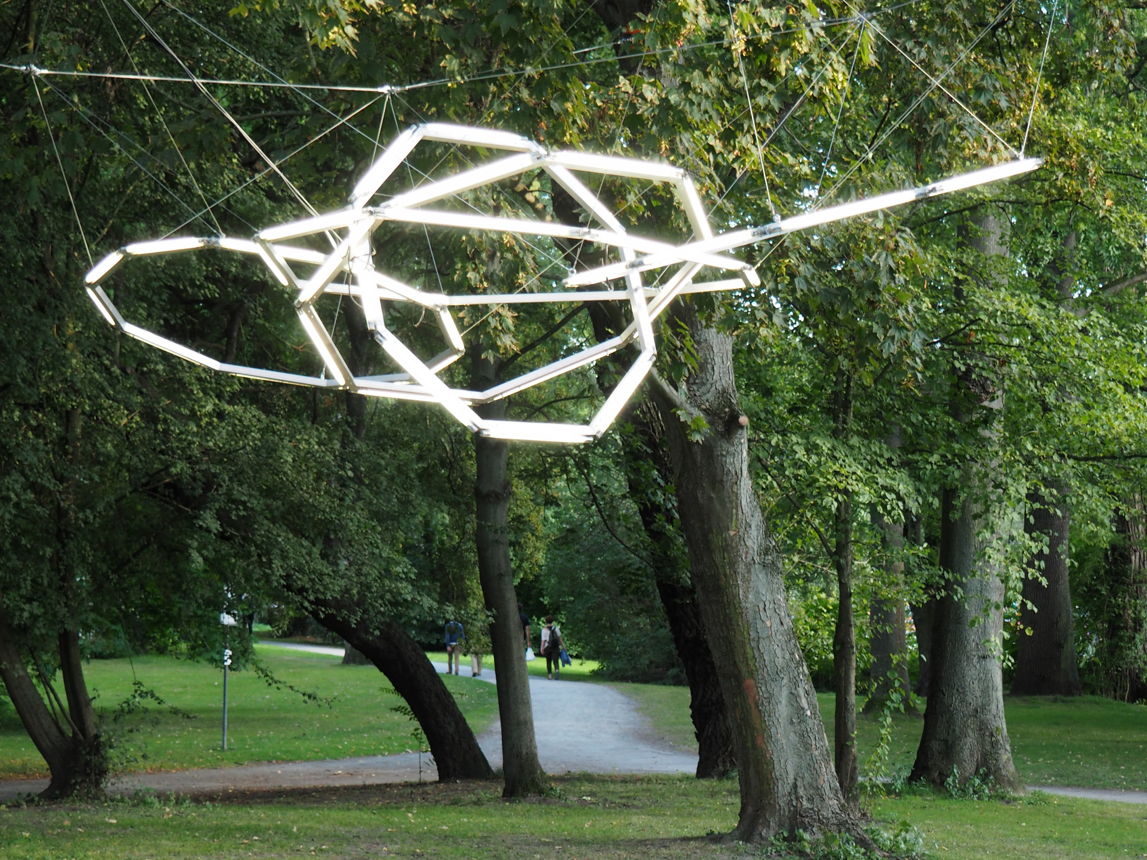 Lichtparcours 2016 in Braunschweig. Station 10 Björn Dahlem: M-Sphären